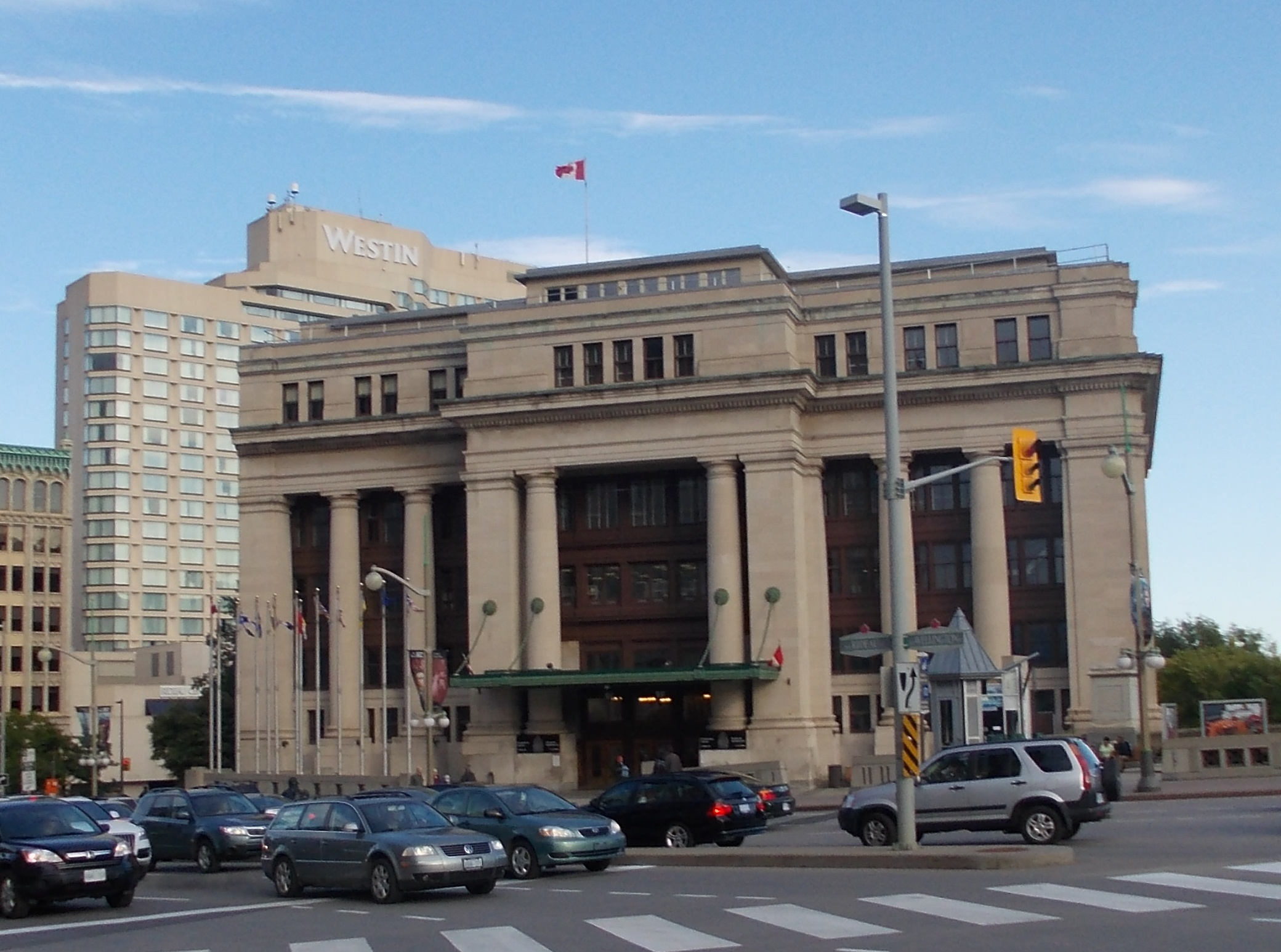 Ottawa Conference Hall